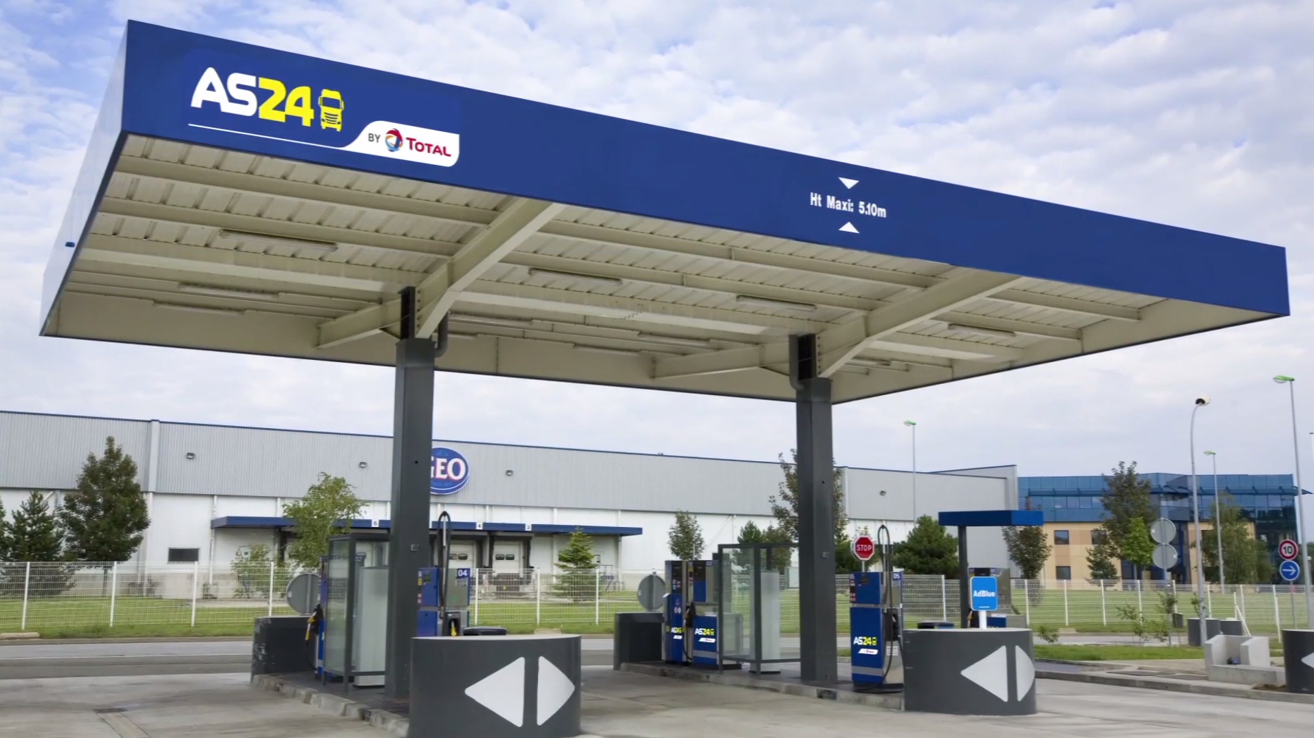 Station Carquefou